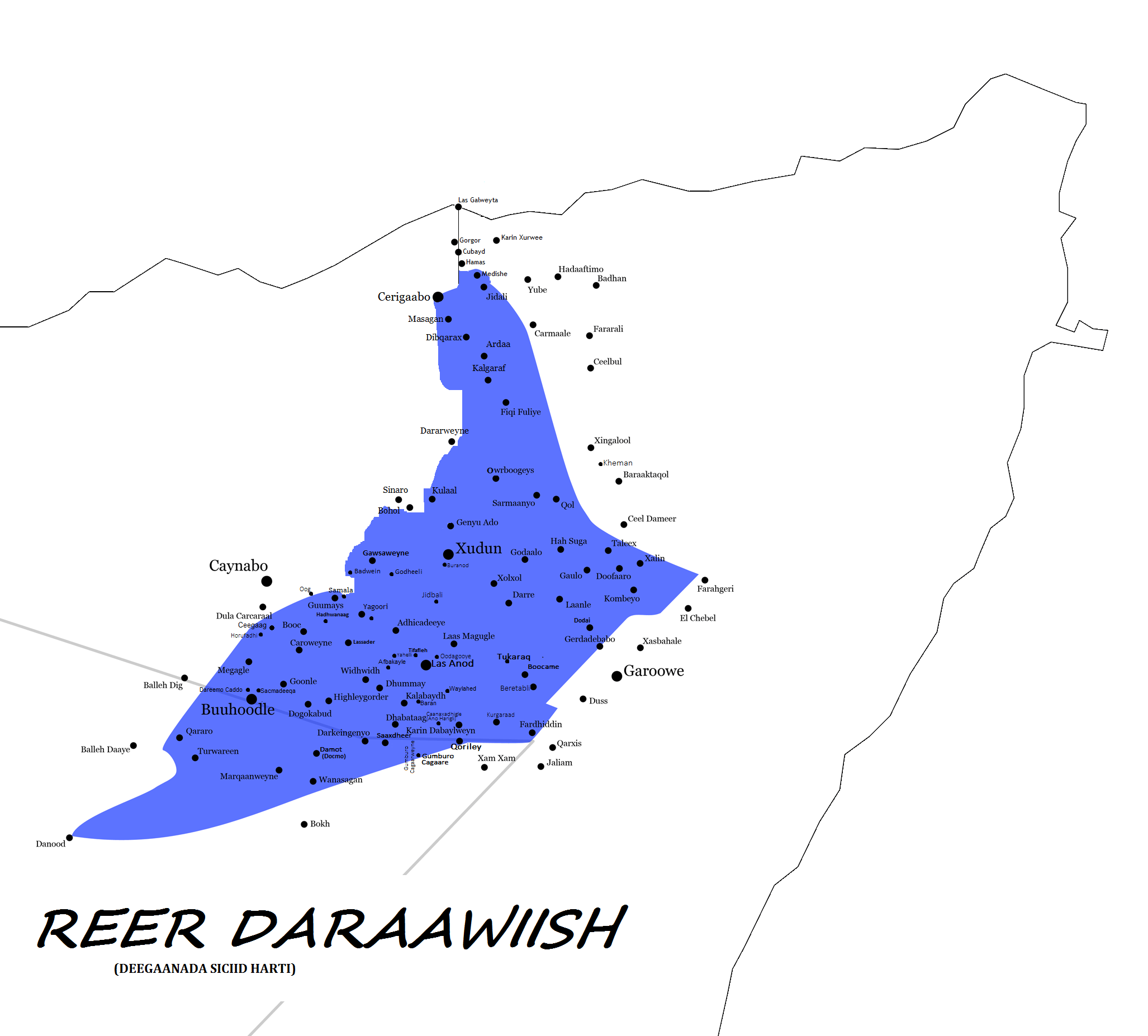 Reer Daraawiish deegaan (homeland)